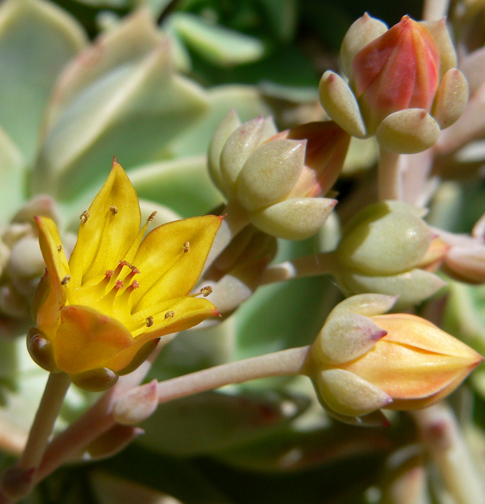 Echeveria multicaulis at the University of California Botanical Garden, Berkeley, California